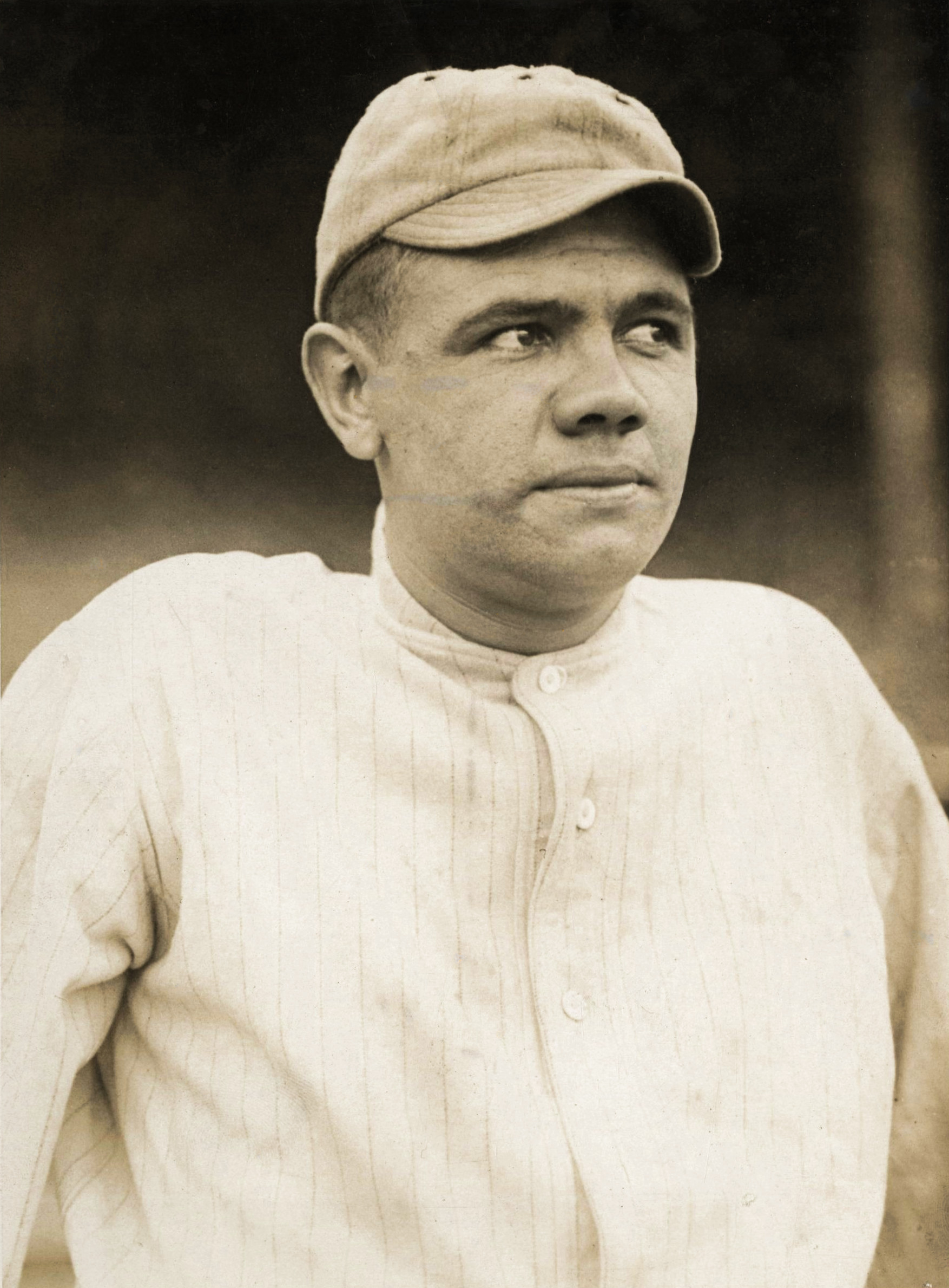 Rookie-era photograph of Babe Ruth